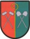 Coat of arms of Scheifling, Styria; valid until 2014